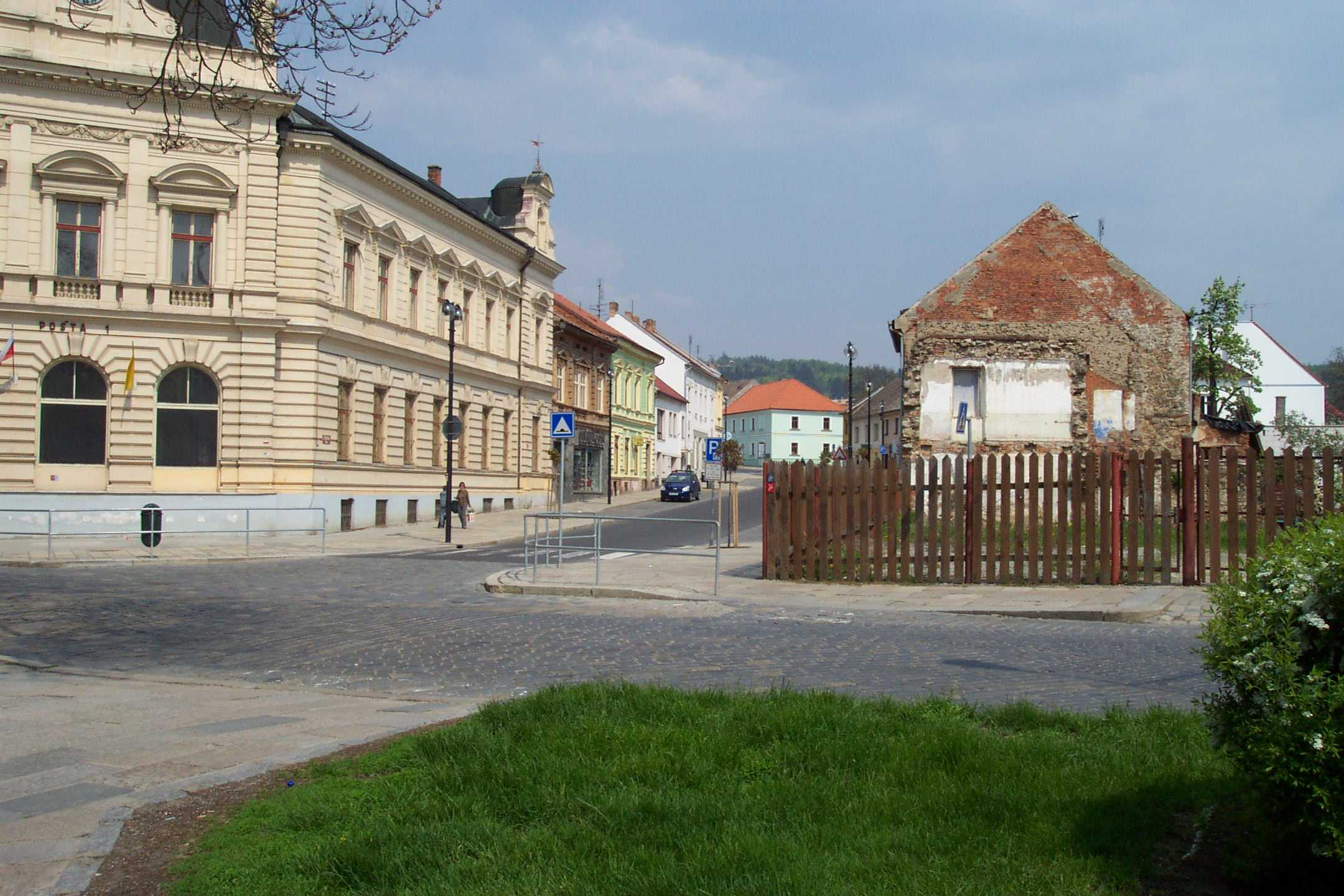 Žižkova street in Písek, southern end near post office and city center